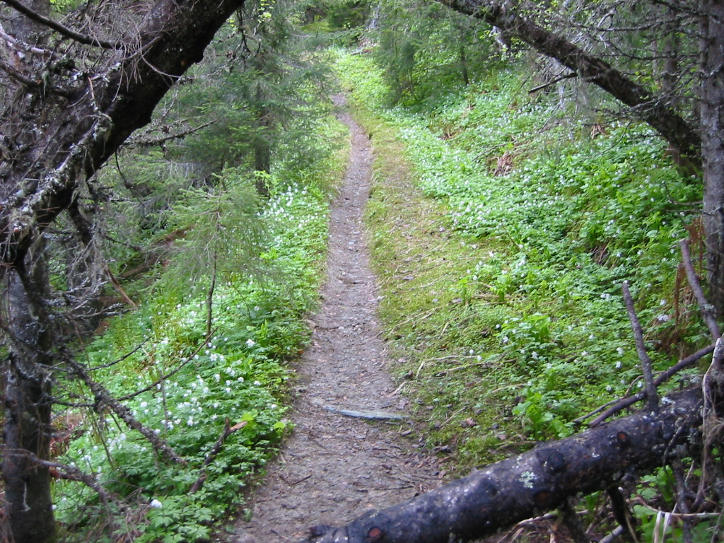 The path up towards Liaåsen Hill in Estenstadmarka. June 6 2006. Orcaborealis.